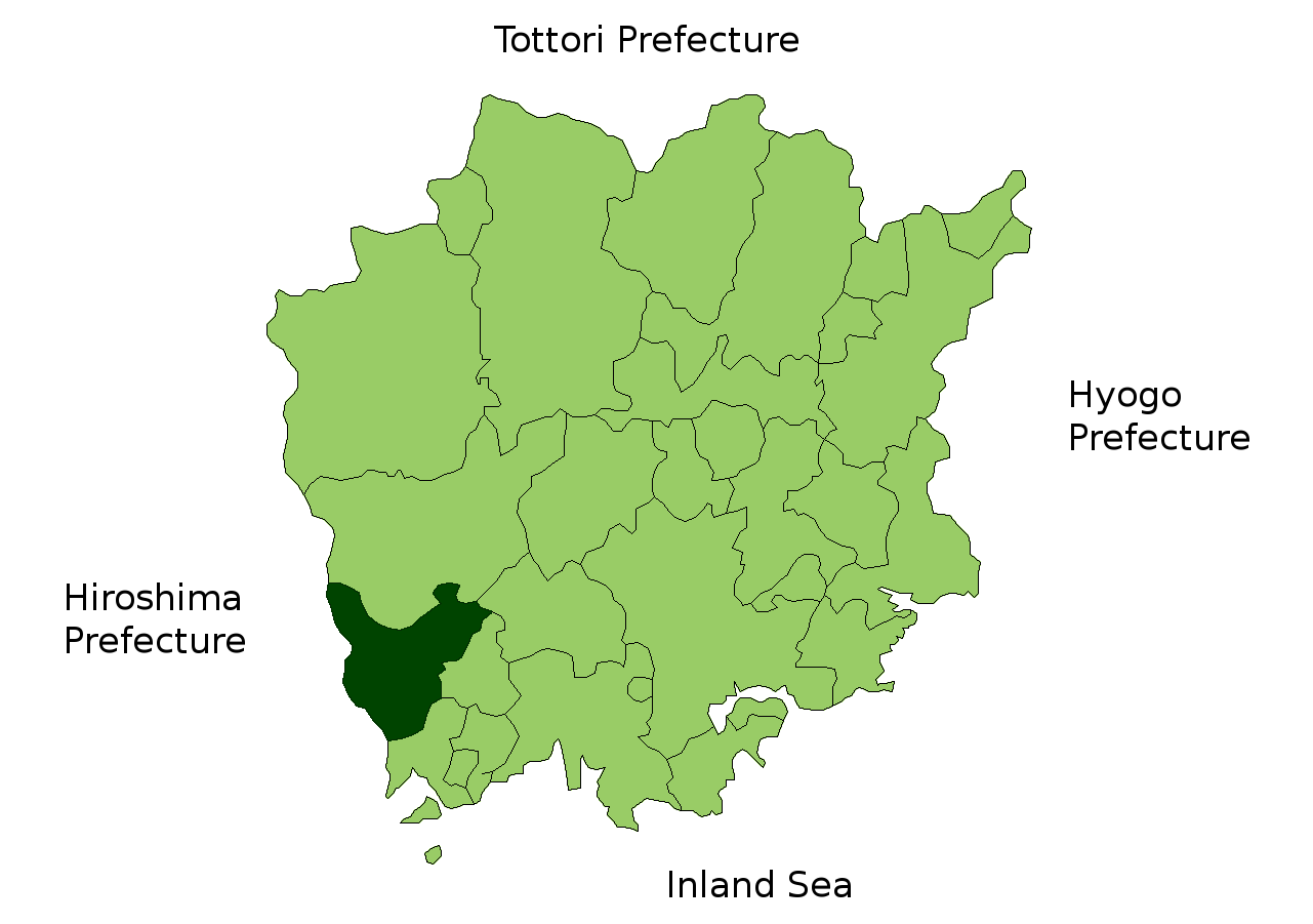 Map of Okayama Prefecture highlighting Ibara city. Borders of map as of July, 2006. (blank map used from [1]) See also Image:OkayamaMapCurrent.png.